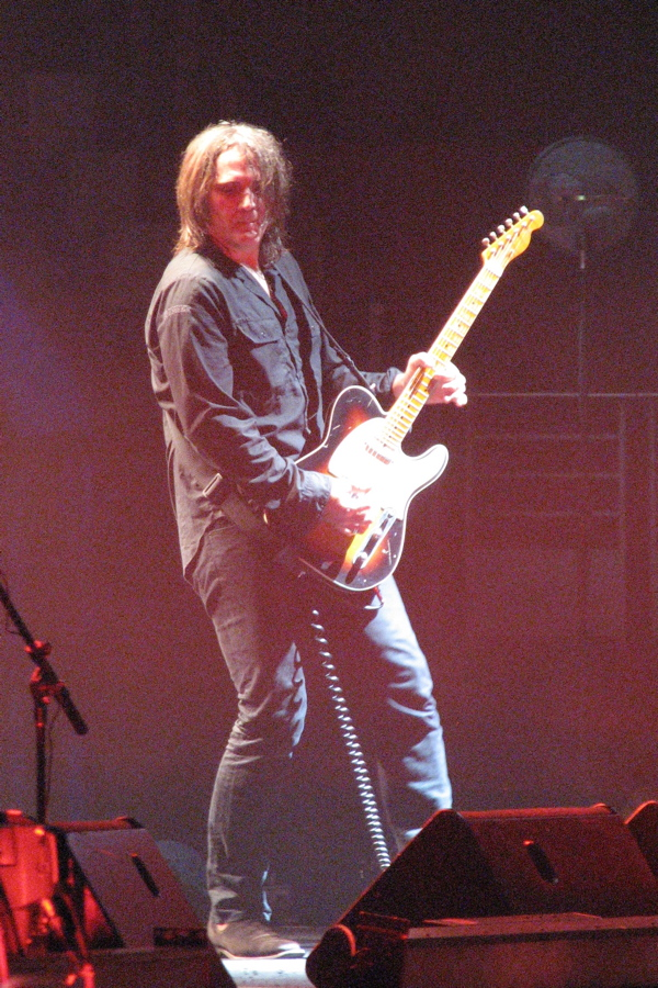 Lead guitarist Ian Haug of Powderfinger performing at the Across the Great Divide Tour in Sydney in 2007.